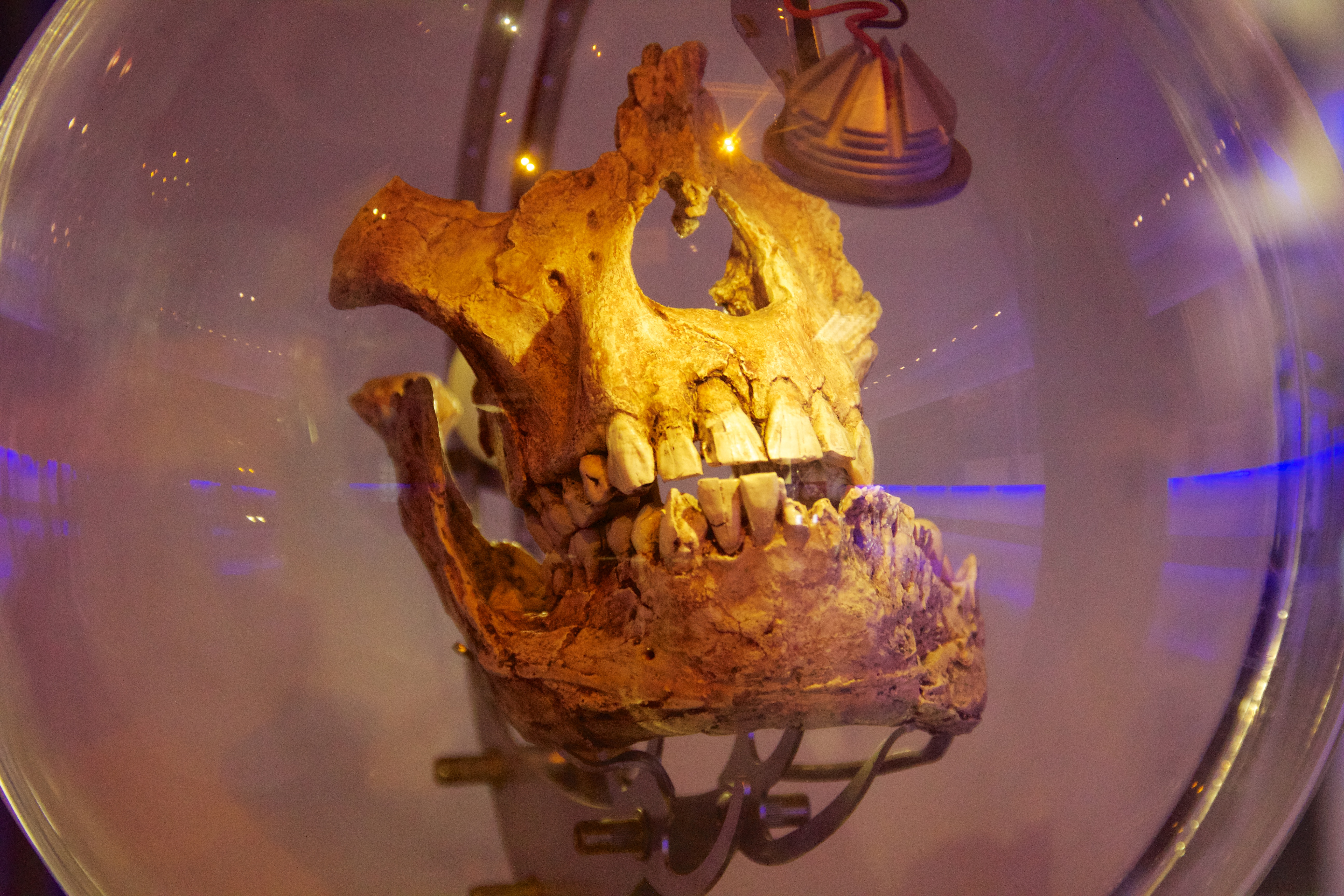 Australopithecus africanus, partial face and lower jaw, (Sts 52), Sterkfontein